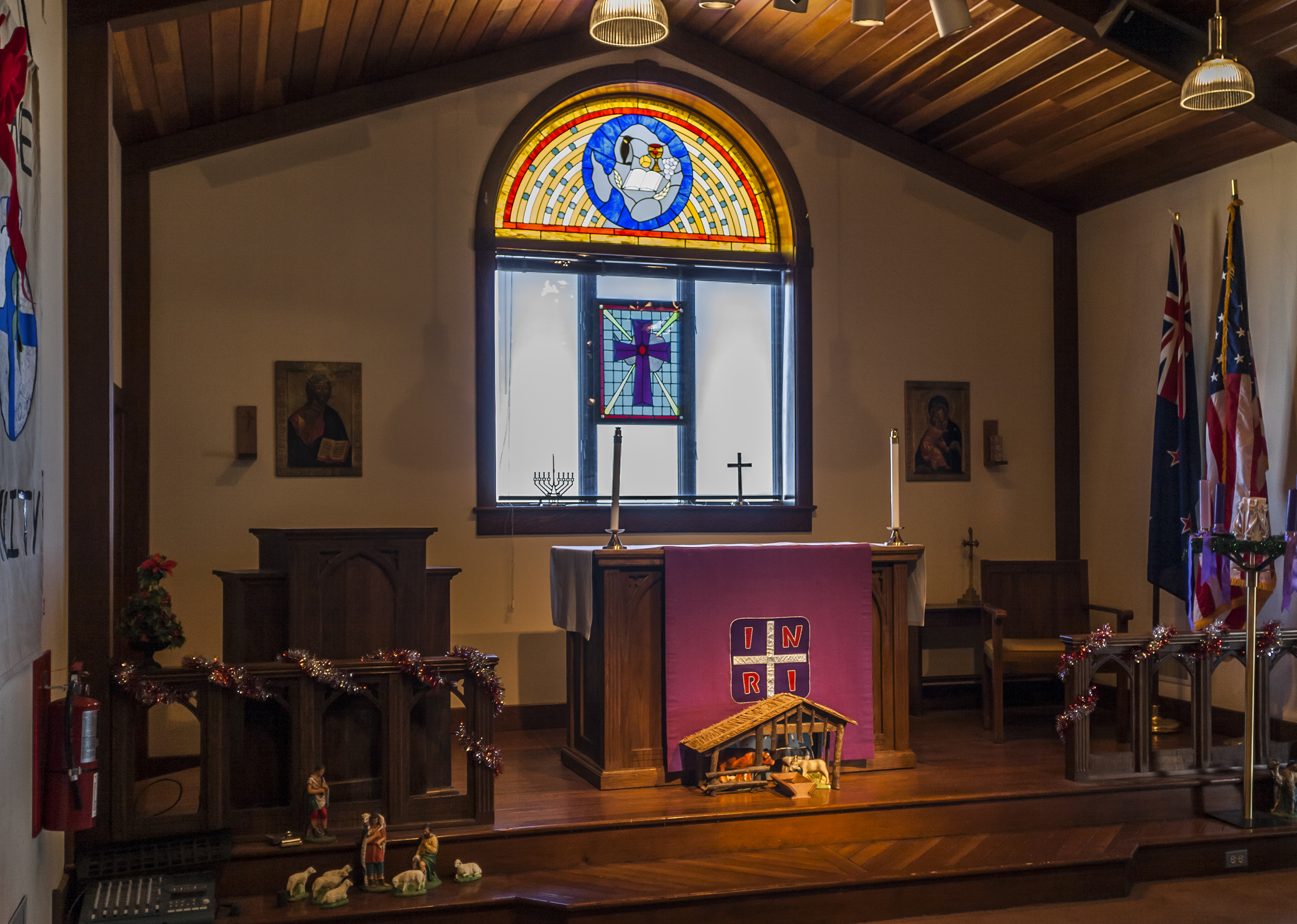 The Chapel of the Snows is a non-denominational Christian church located at the United States' McMurdo Station on Ross Island, Antarctica